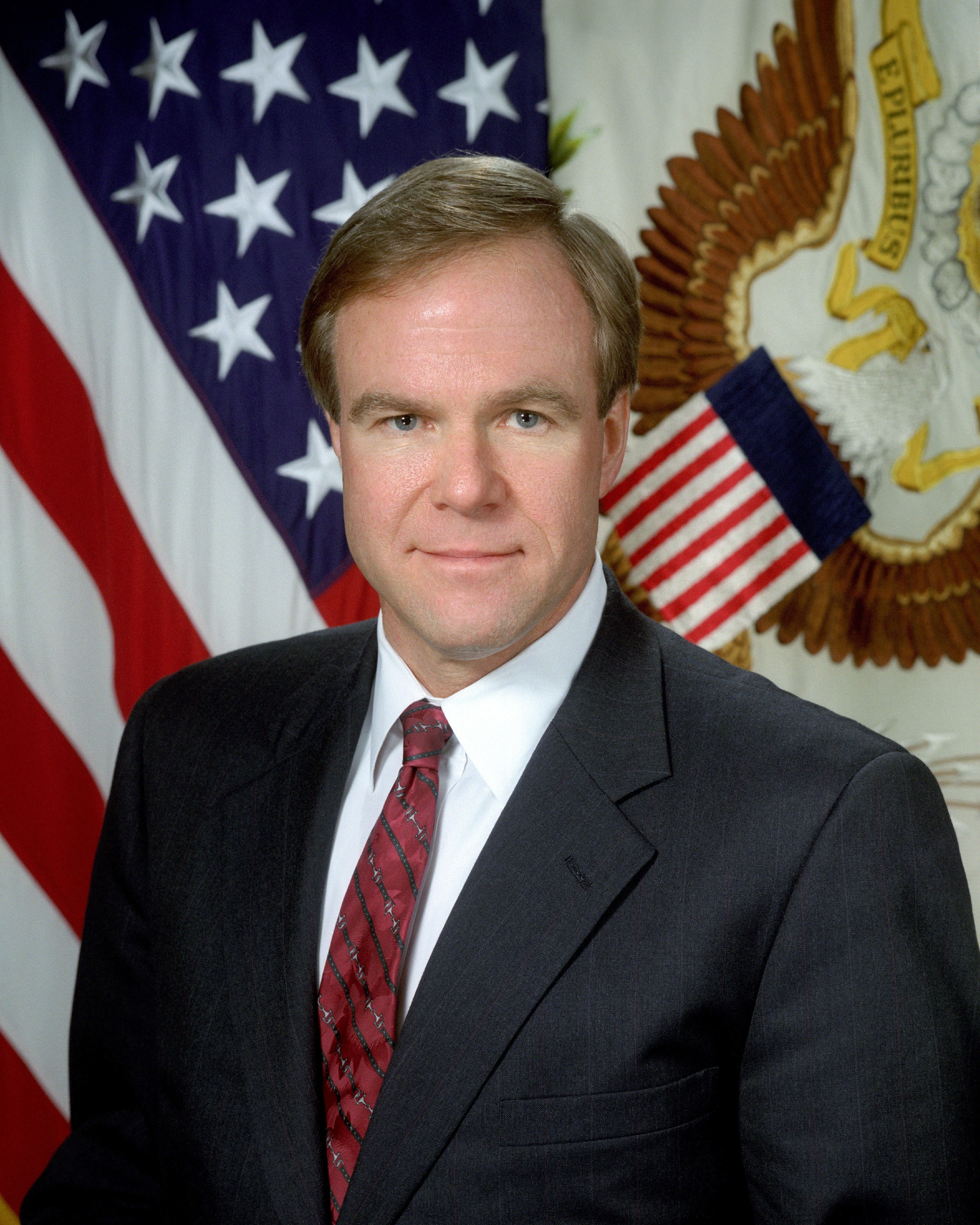 Joe R. Reeder